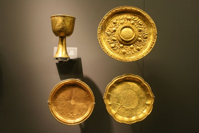 Chinese gold plates and a chalice from the Jurchen-led Jin Dynasty (1115-1234 AD) of medieval China.